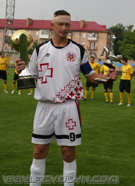 Oleksandr Pyshur, forward of FC Volyn Lutsk